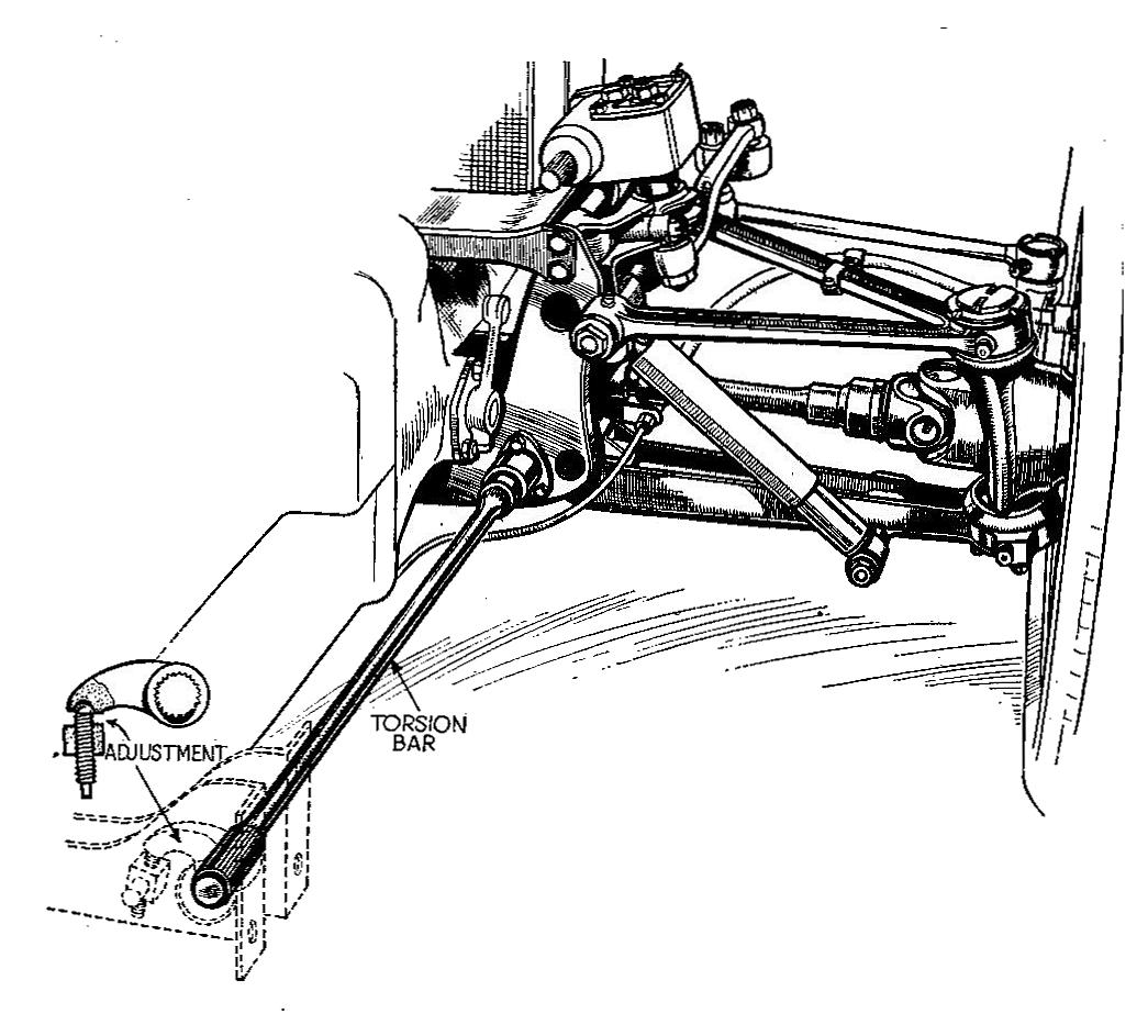 Citroen front suspension (Autocar Handbook, 13th ed, 1935).jpg